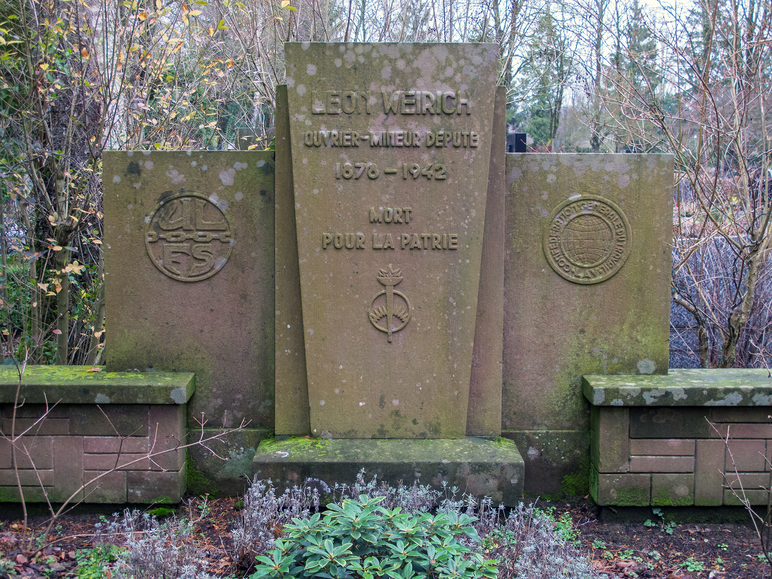 The grave of Léon Weirich on the Lallange cemetery in Esch-sur-Alzette